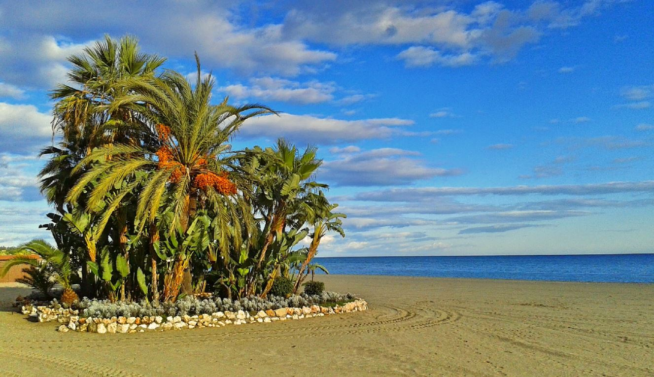 Playa de la Rada beach in Estepona in autumn